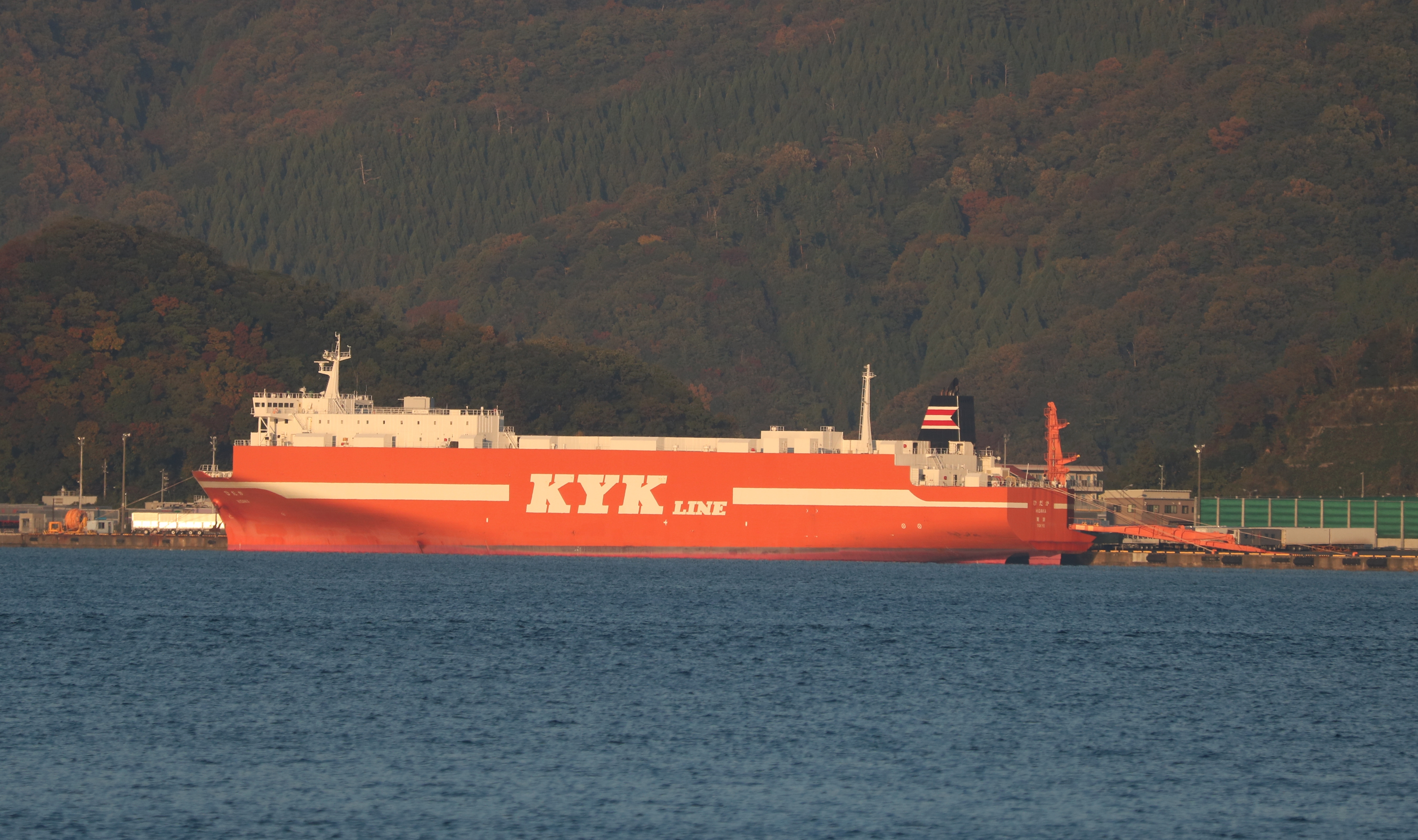 Hidaka (ship, 2015) of Kinkai Yusen in Port of Tsuruga, Tusuga, Fuki Prefecture, Japan.